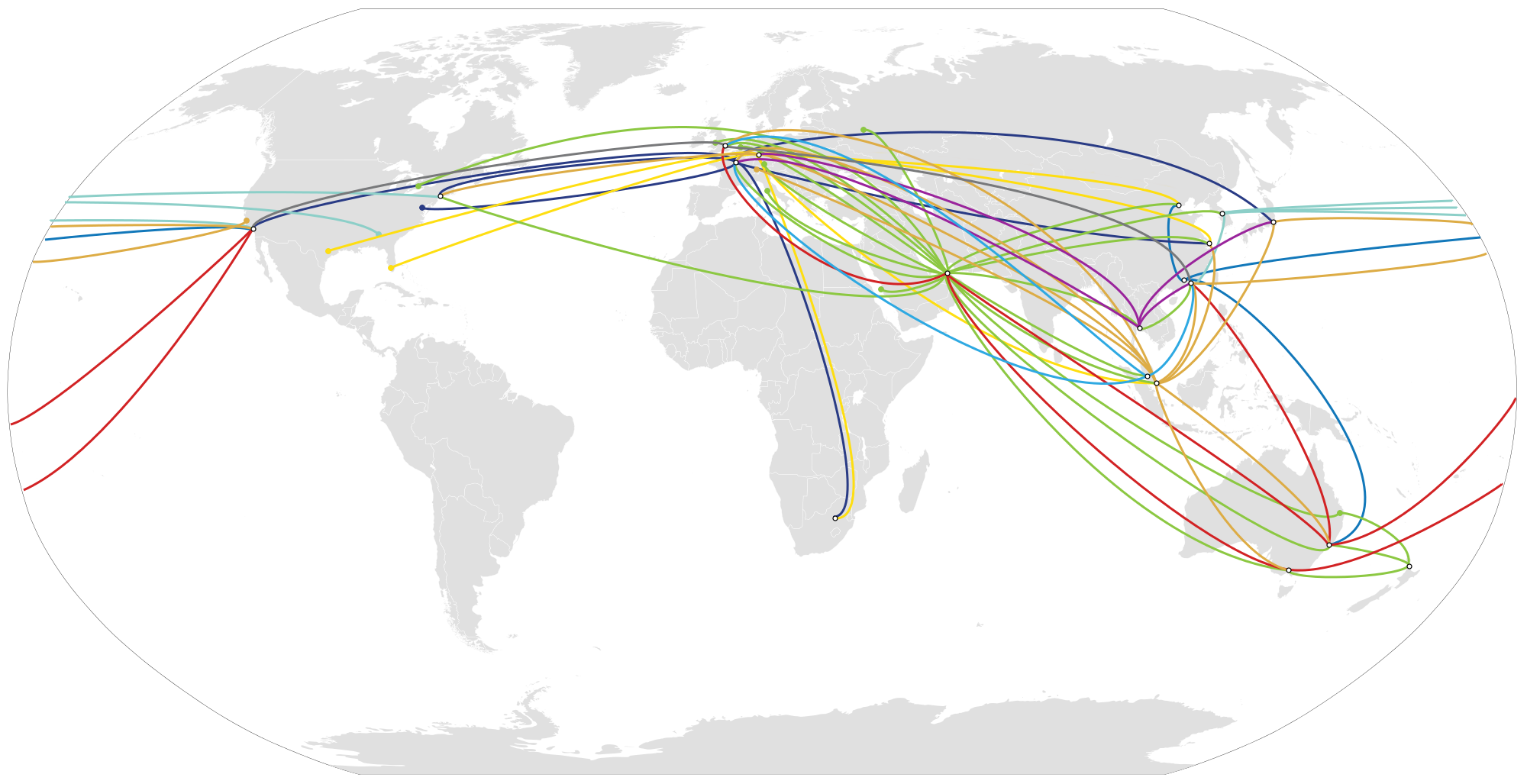 Airbus A380 routes by airline